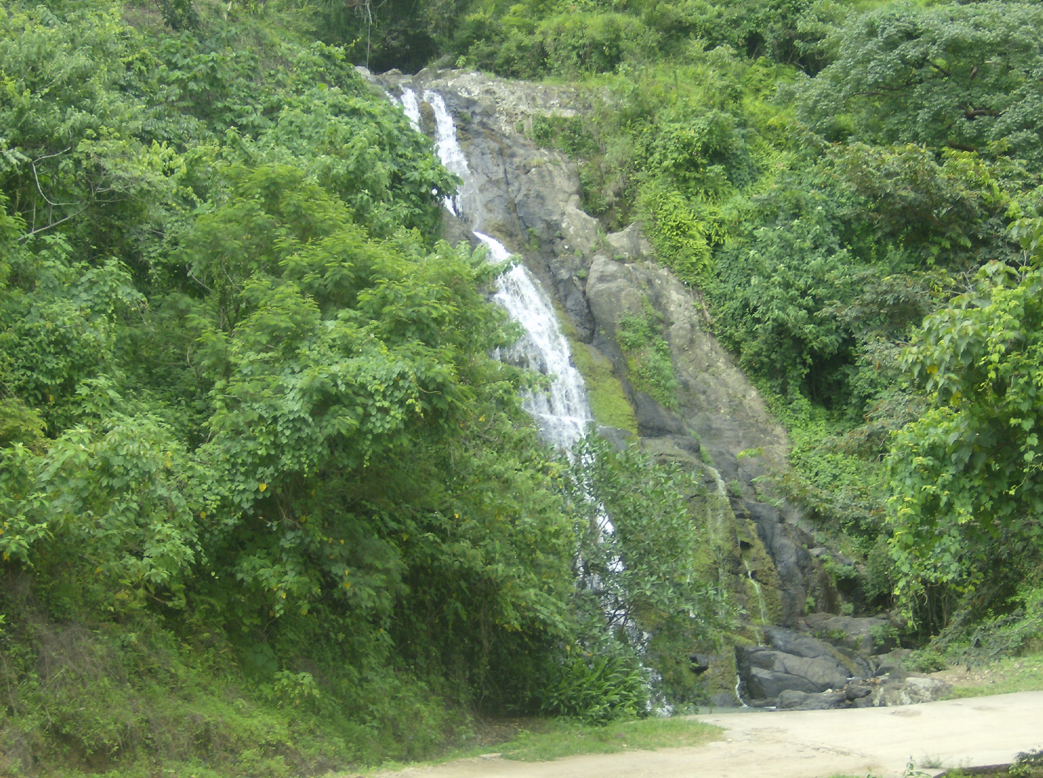 Piraera, municipality in the Honduran department of Lempira.